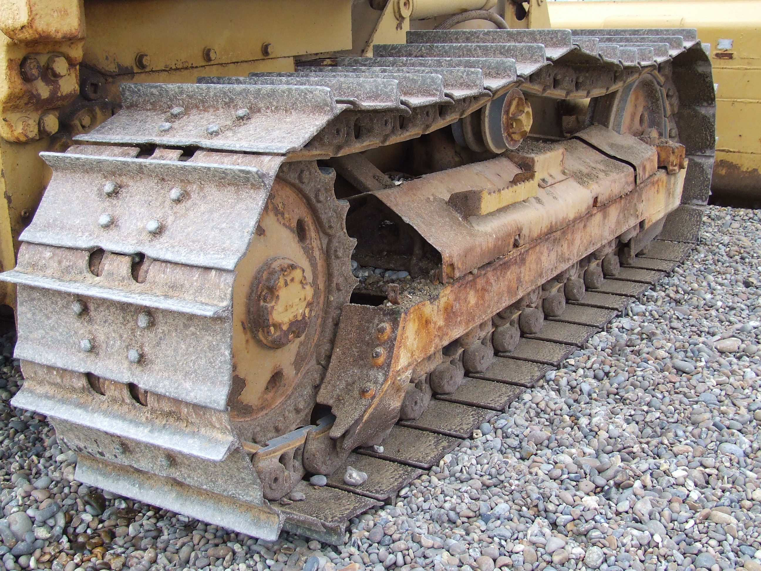 the track of a small bulldozer (used for hauling boats) on Aldeburgh beach